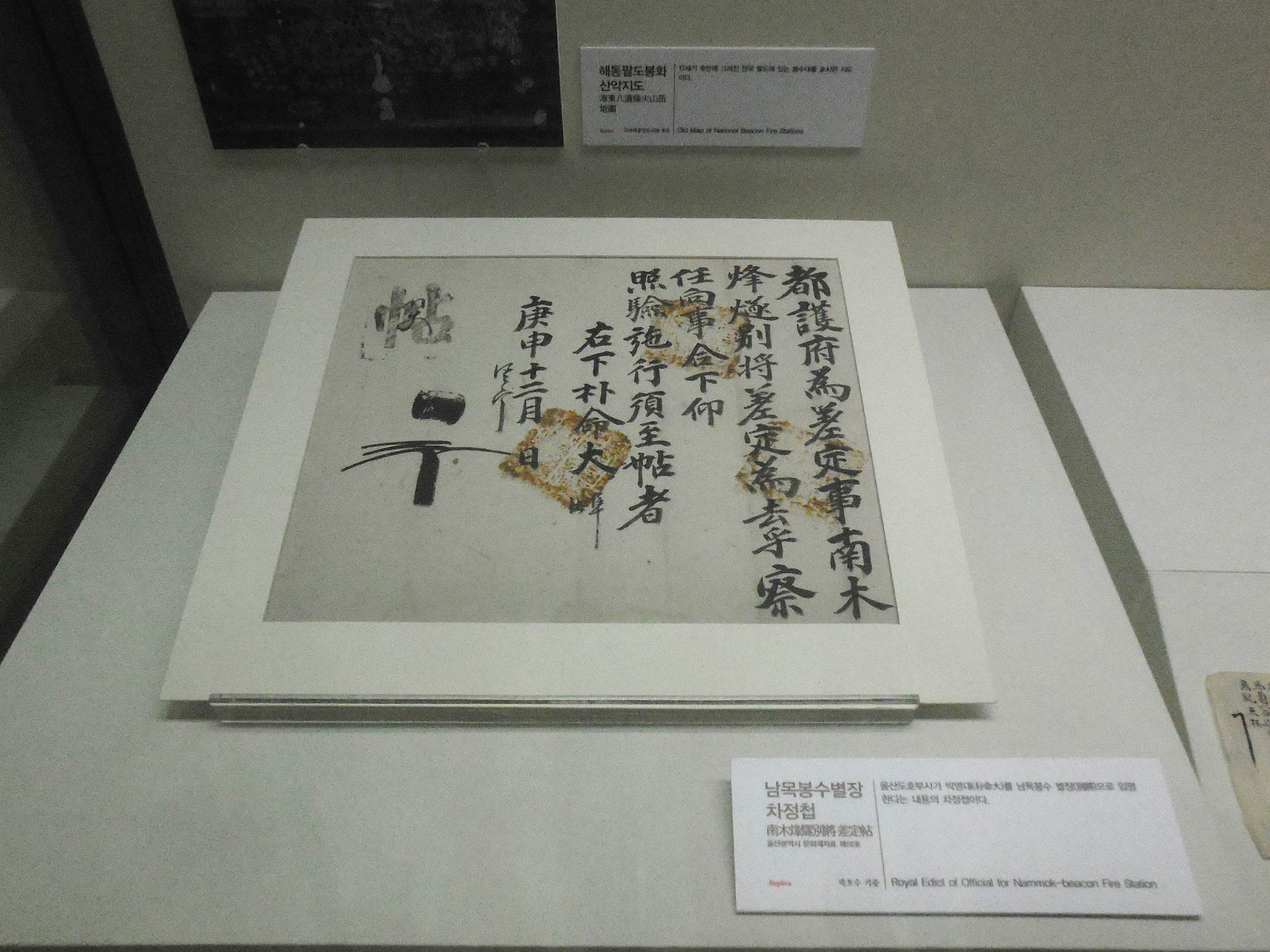 Royal edict of official for Nammok-beacon fire station.